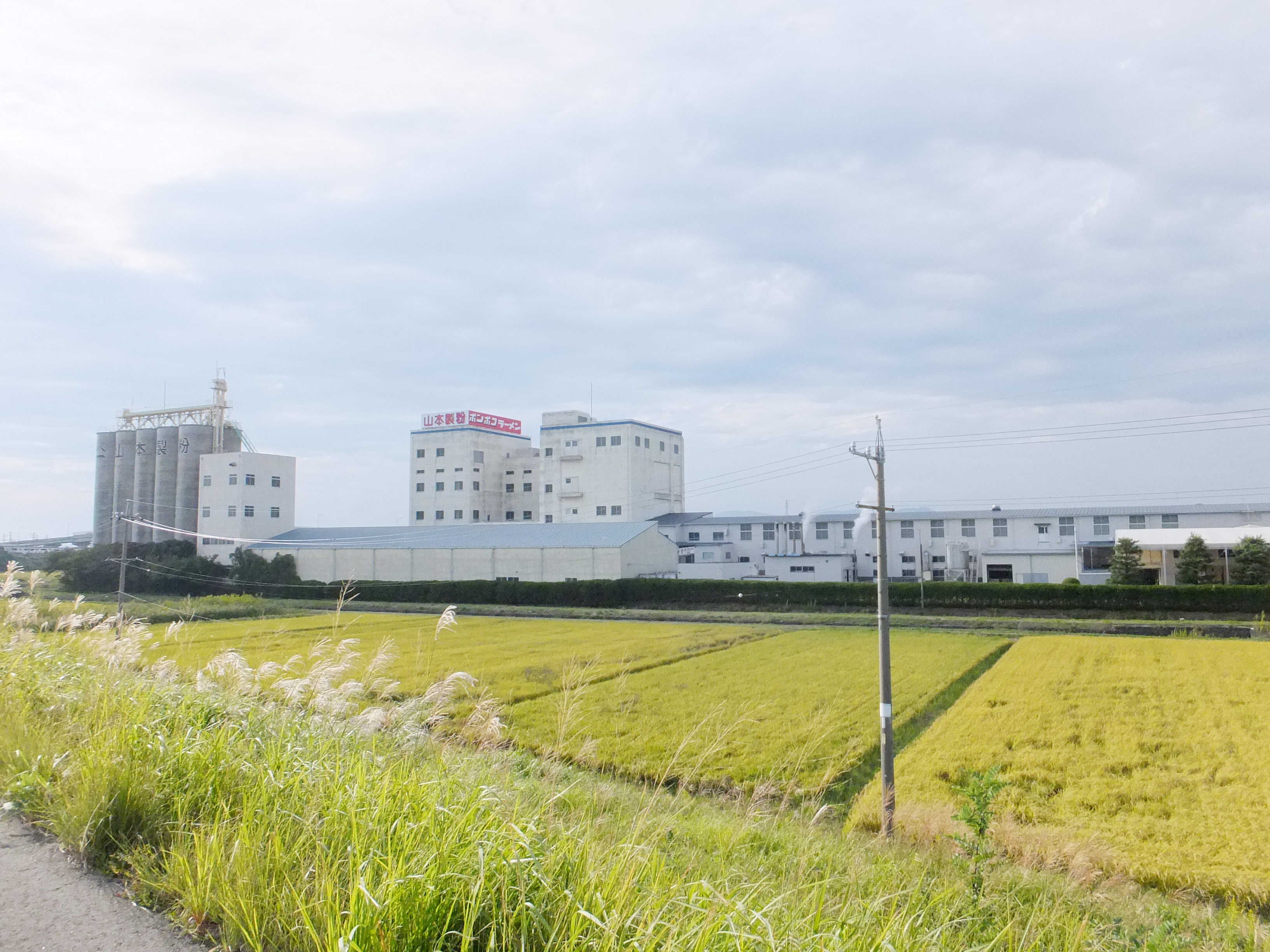 Yamamoto Seifun Co., Ltd. (山本製粉) headquarters, at Kozakai-cho, Toyokawa, Aichi, Japan